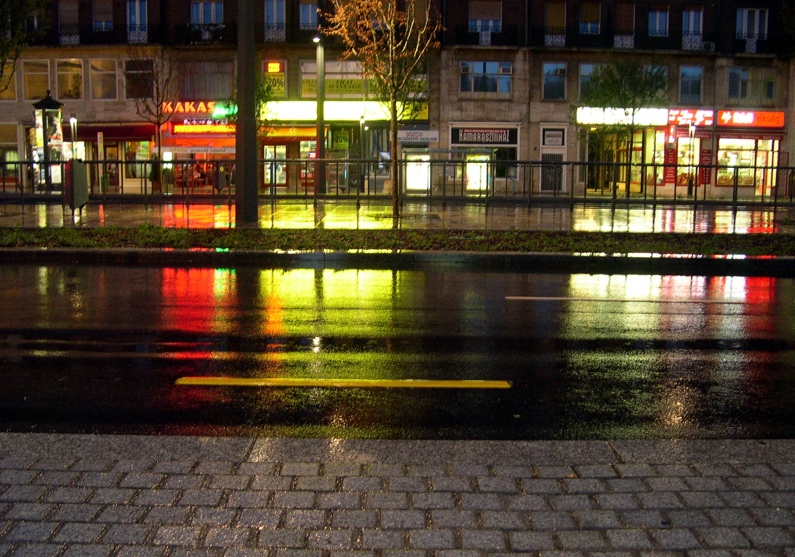 Budapest, Károly körút. Night